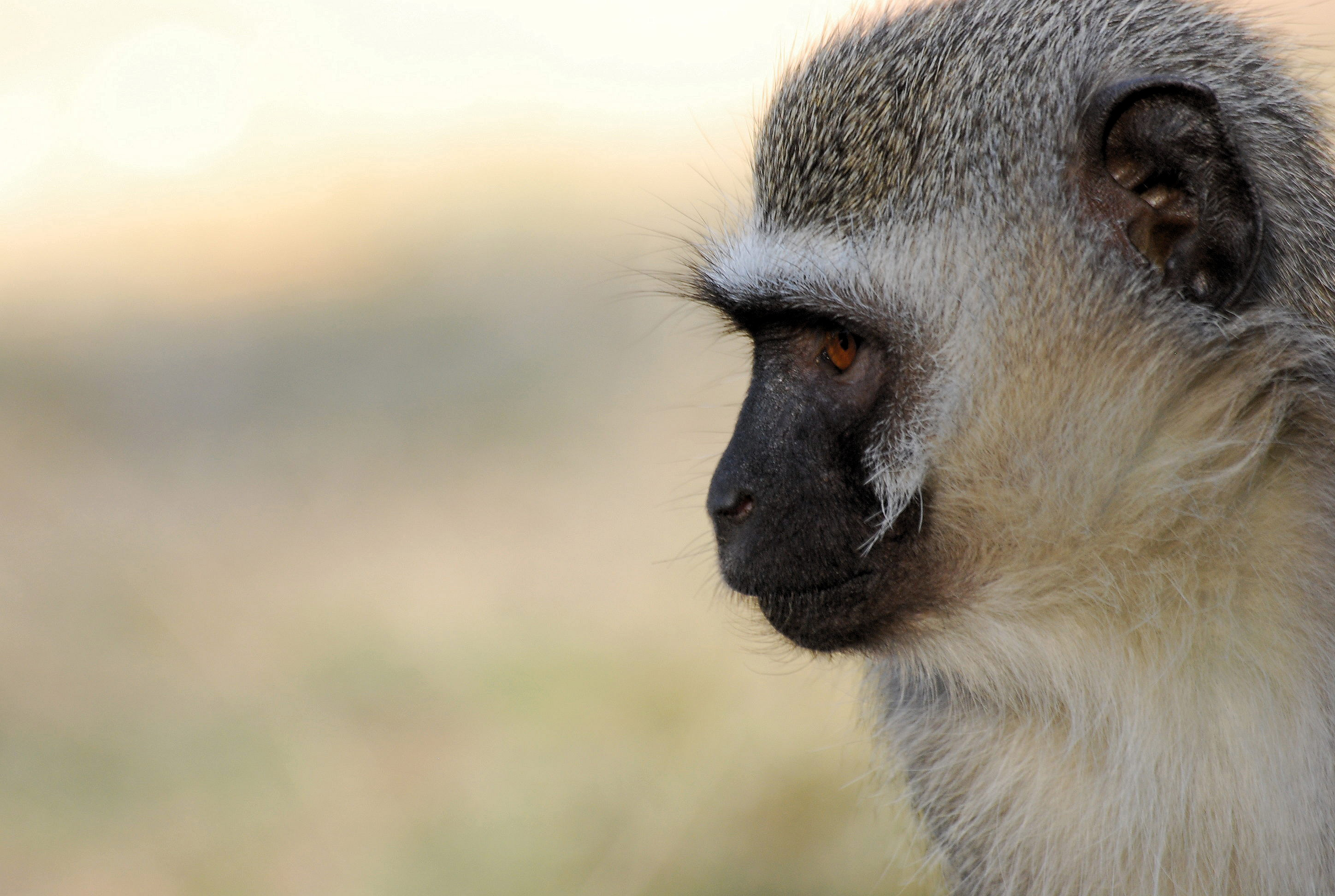 vervet monkey in the Kruger NP